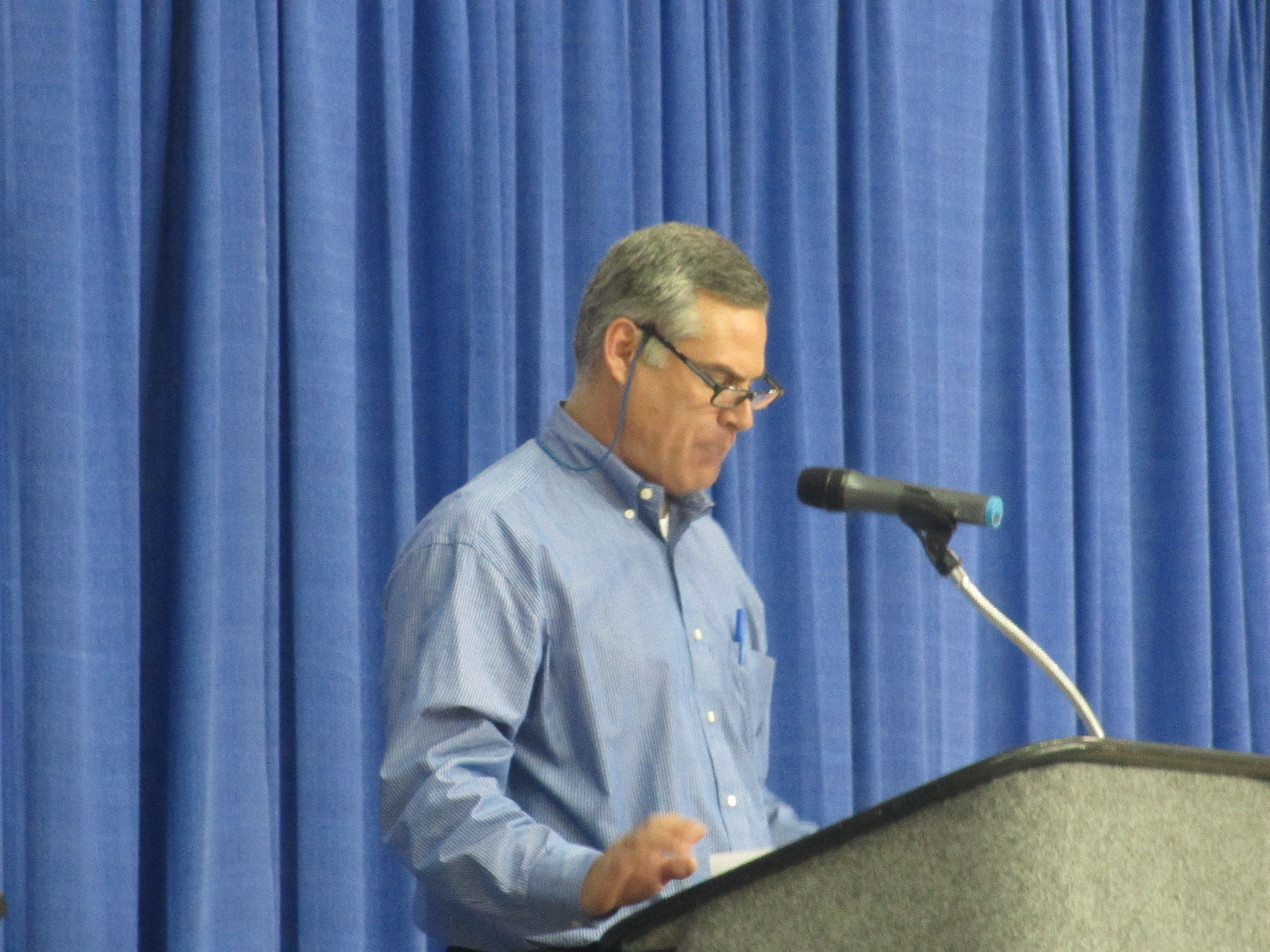 Then-Drake University head football coach Chris Creighton addresses a student audience at the Ray Center in 2013.